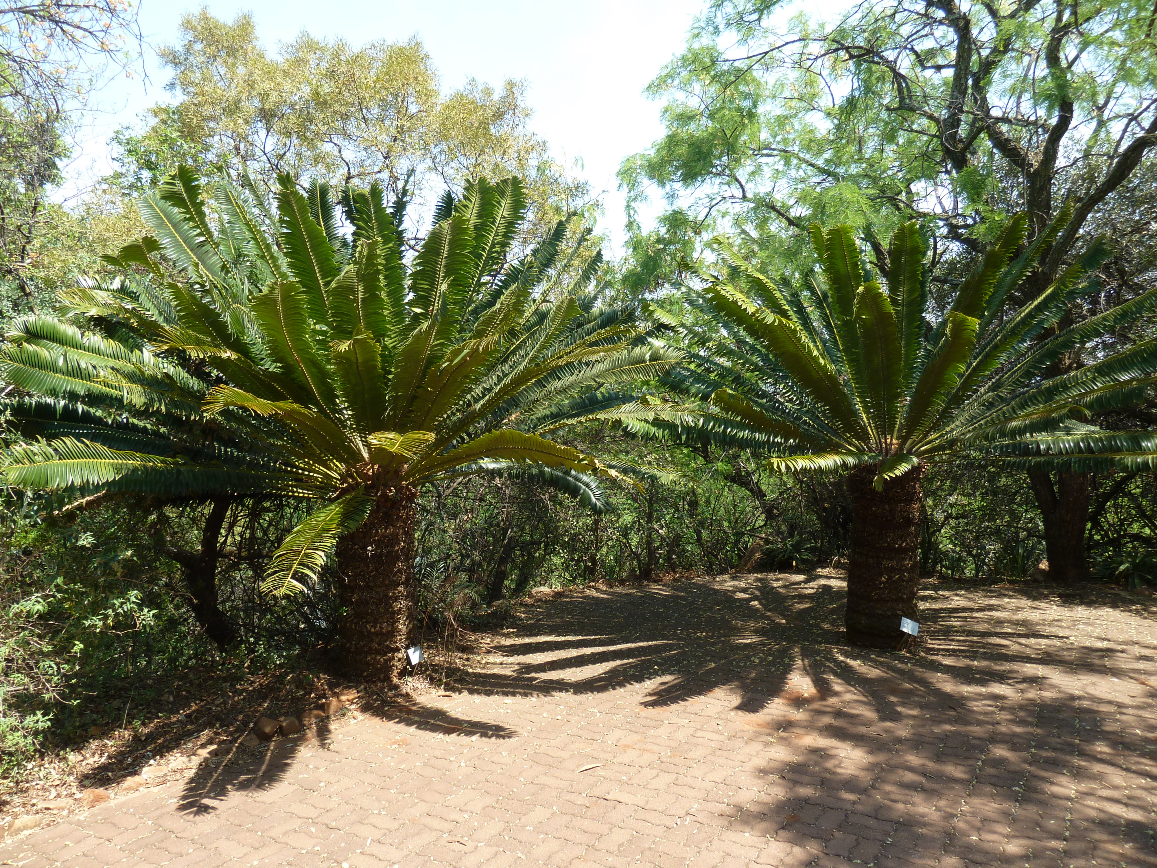 Modjadji cycads in the Pretoria National Botanical Garden